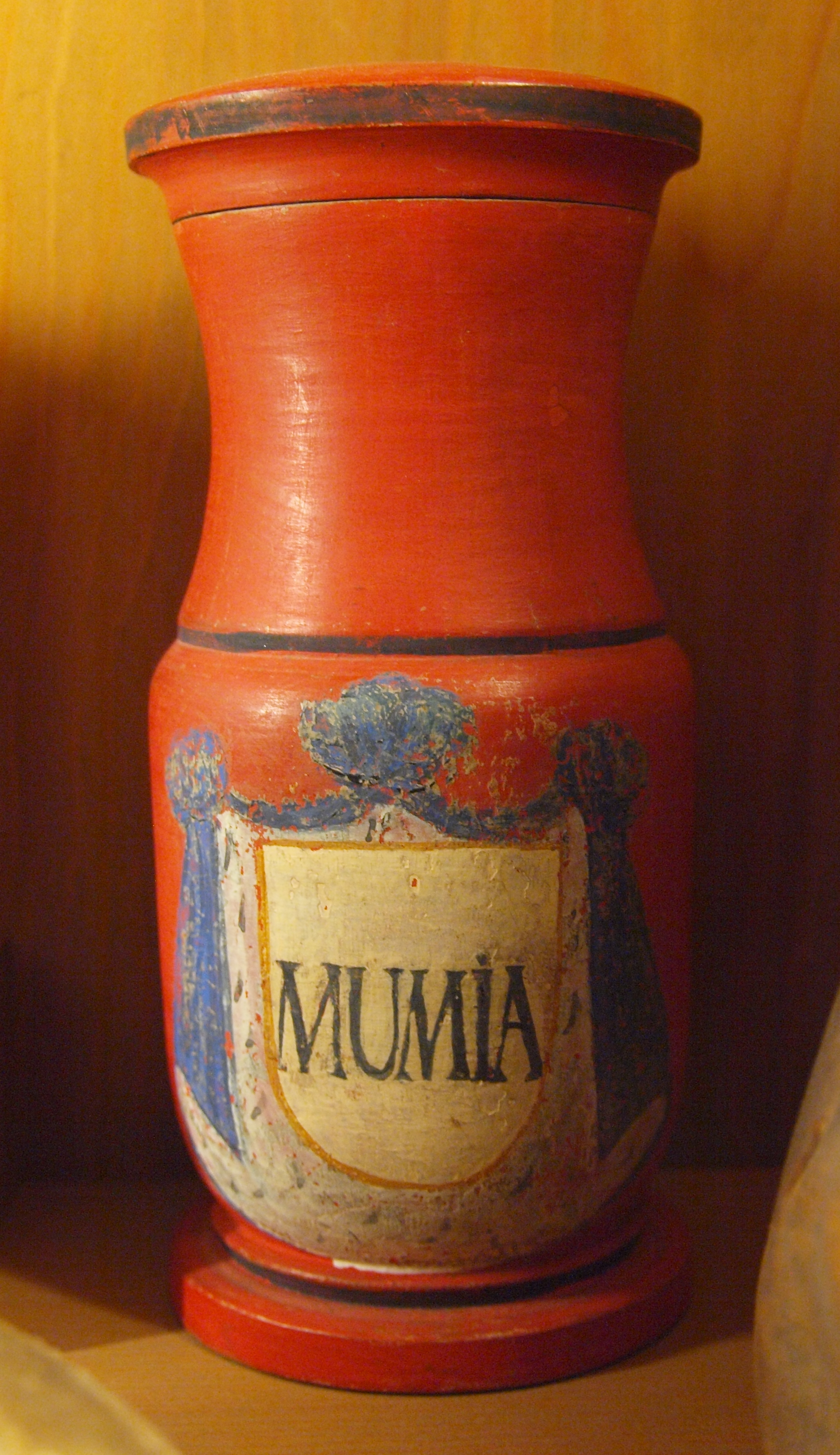 Apothecary vessel (albarello) with inscription (MUMIA) dating to 18th century at Deutsches Apothekenmuseum Heidelberg, Germany.